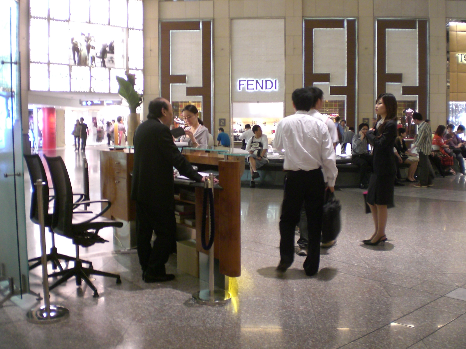 知客? Author= Shayork